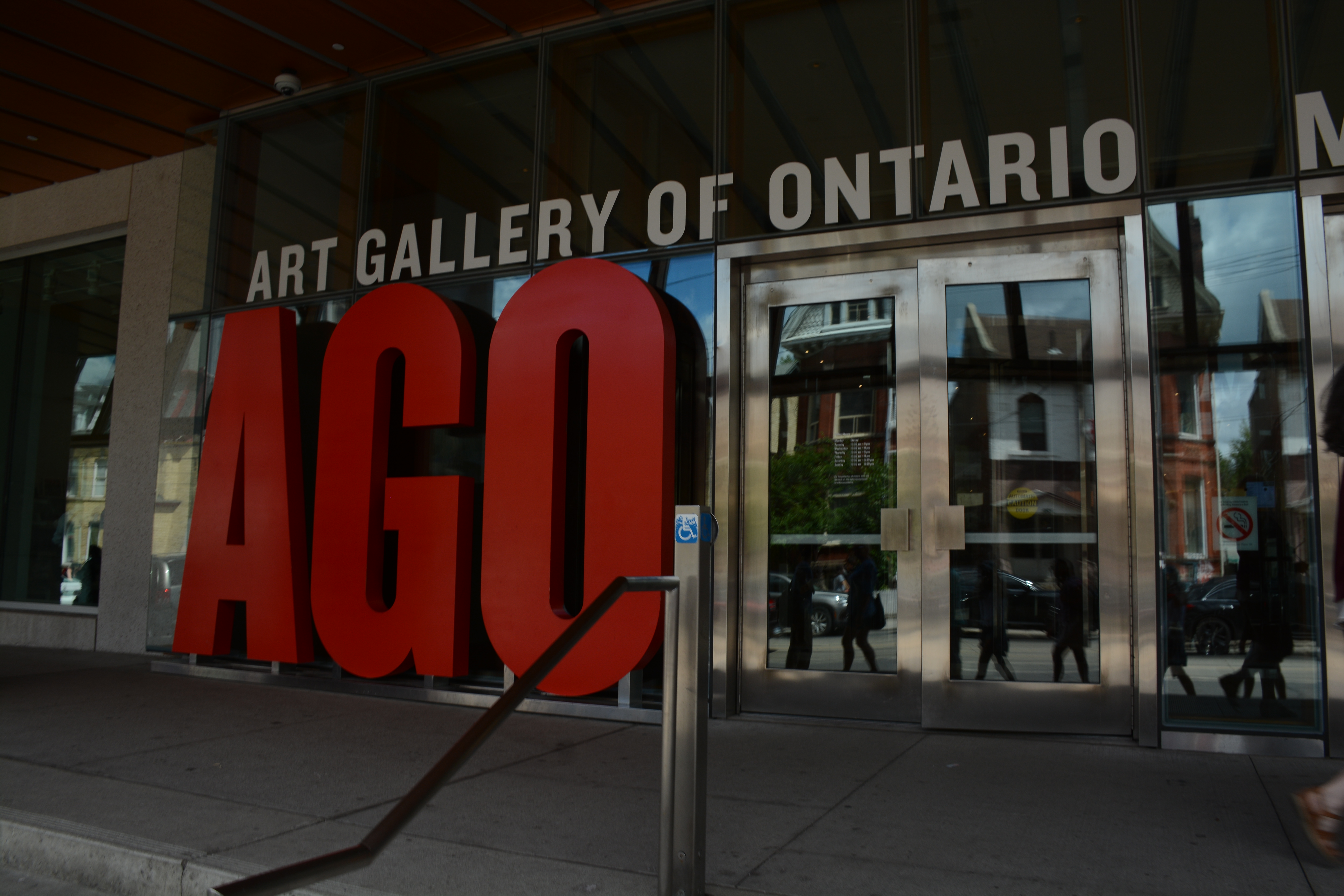 Art gallery of ontario AGO